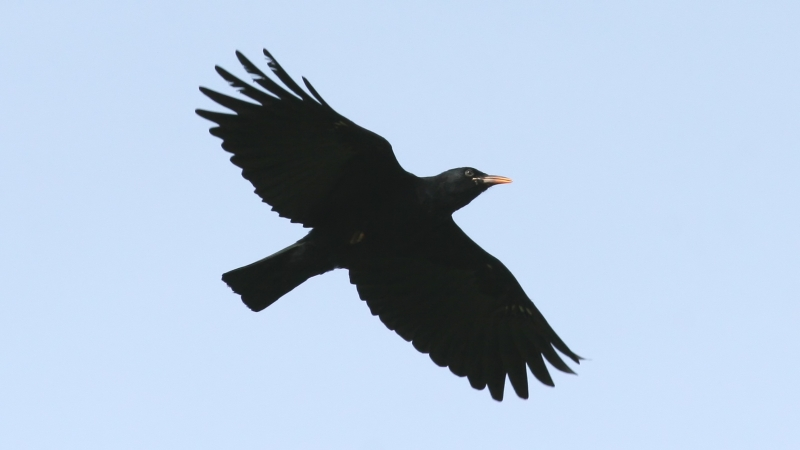 Chough (Pyrrhocorax pyrrhocorax)